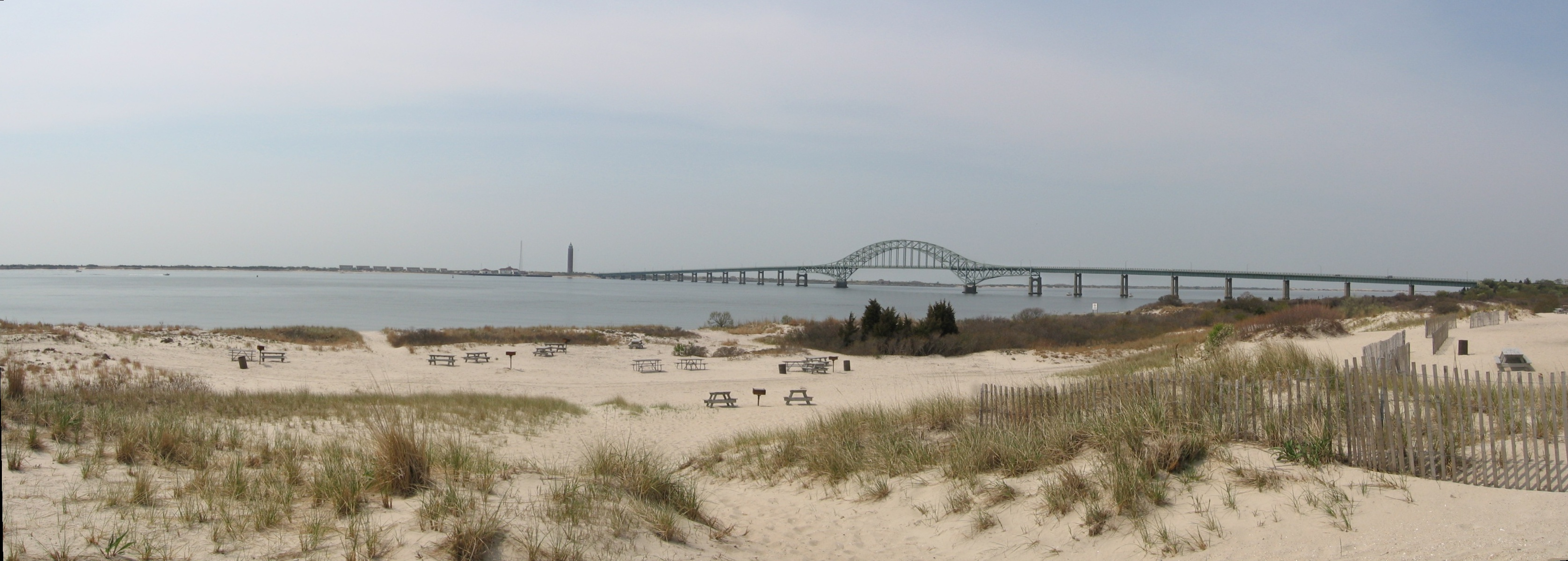 Panorama picture taken by me of Robert Moses Bridge connecting to Fire Island on May 2006.